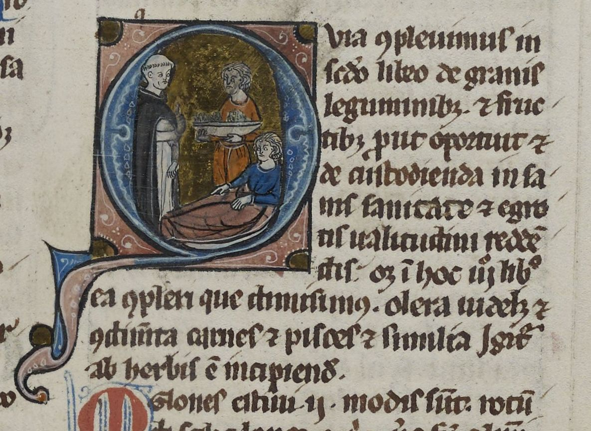 Dominican doctor, servant, and patient, Rare Book & Manuscript Library University of Pennsylvania LJS 24